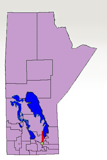 The 1998-2011 boundaries of the Gimli electoral district highlighted in red